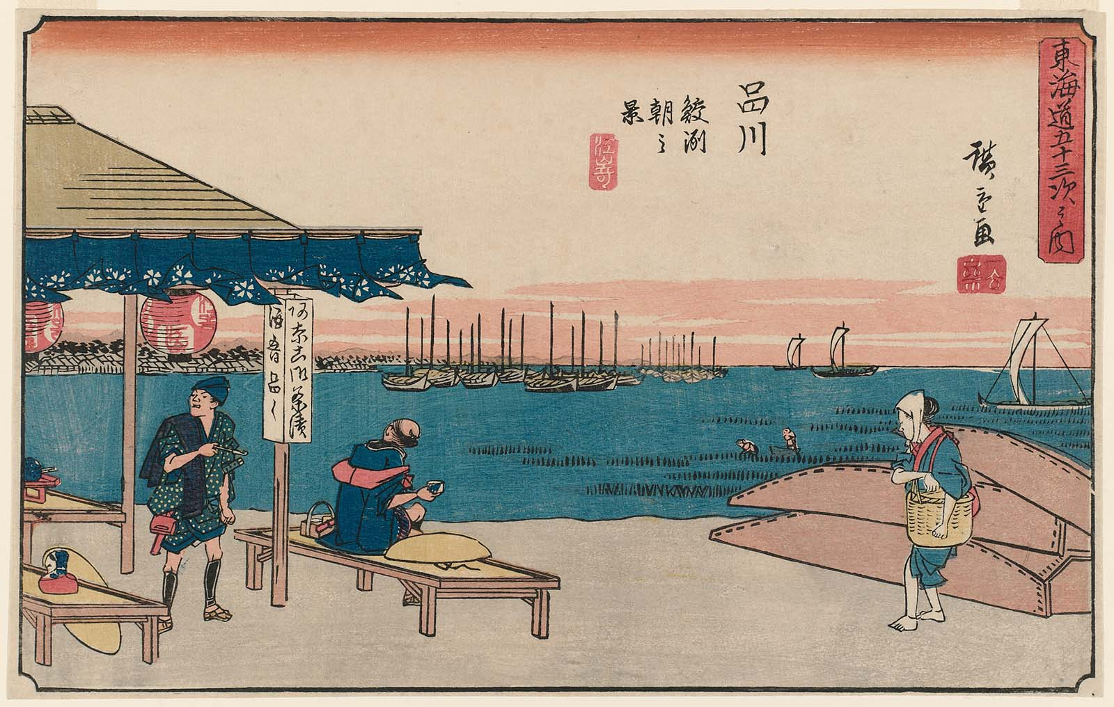 Gyôsho Tôkaidô; Shinagawa, Samegafuchi asa no kei